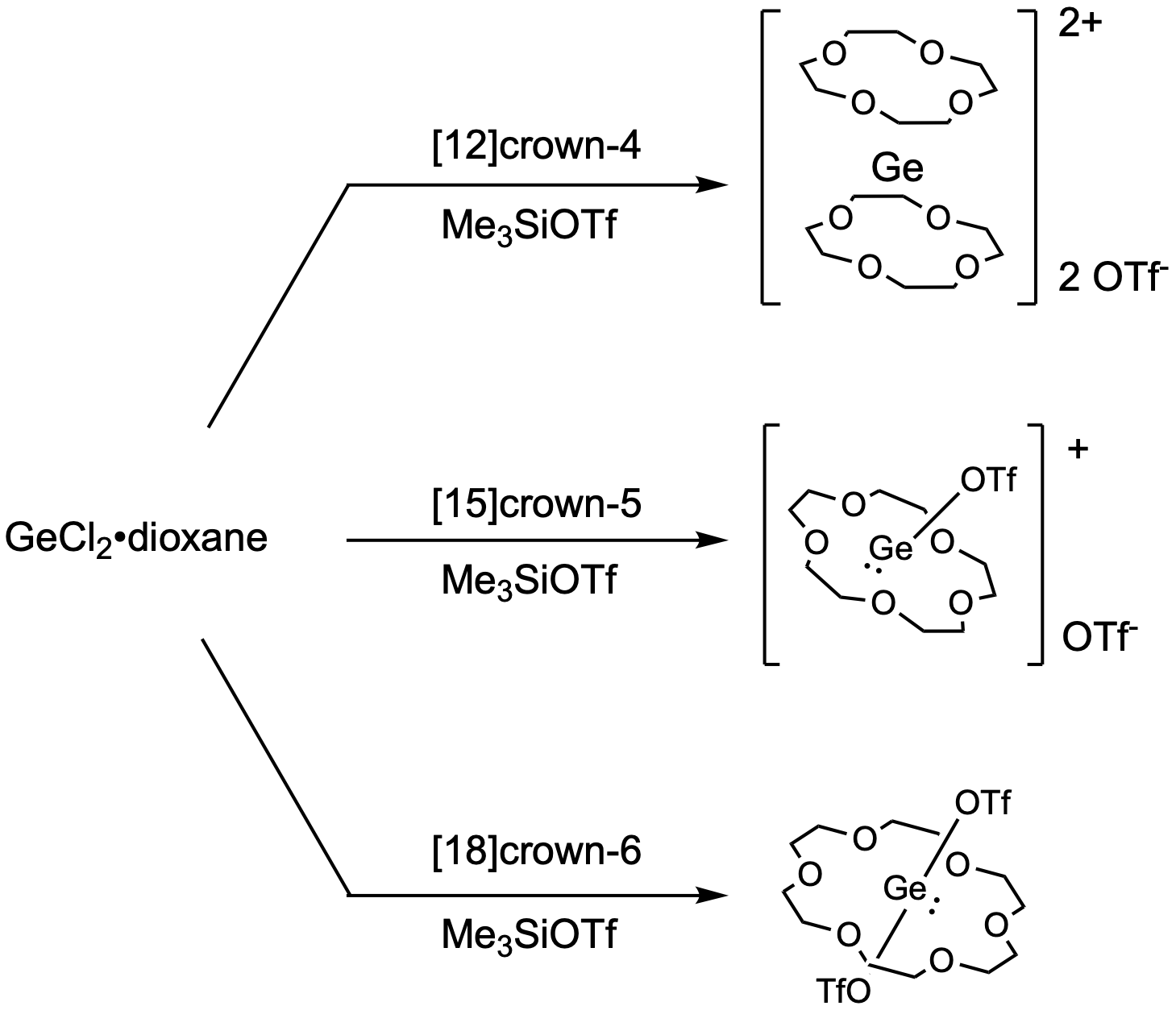 Synthesis of Ge(II) crown ether complexes, reported in Angew. Chem. Int. Ed. 2009, 48, 5155 –5158